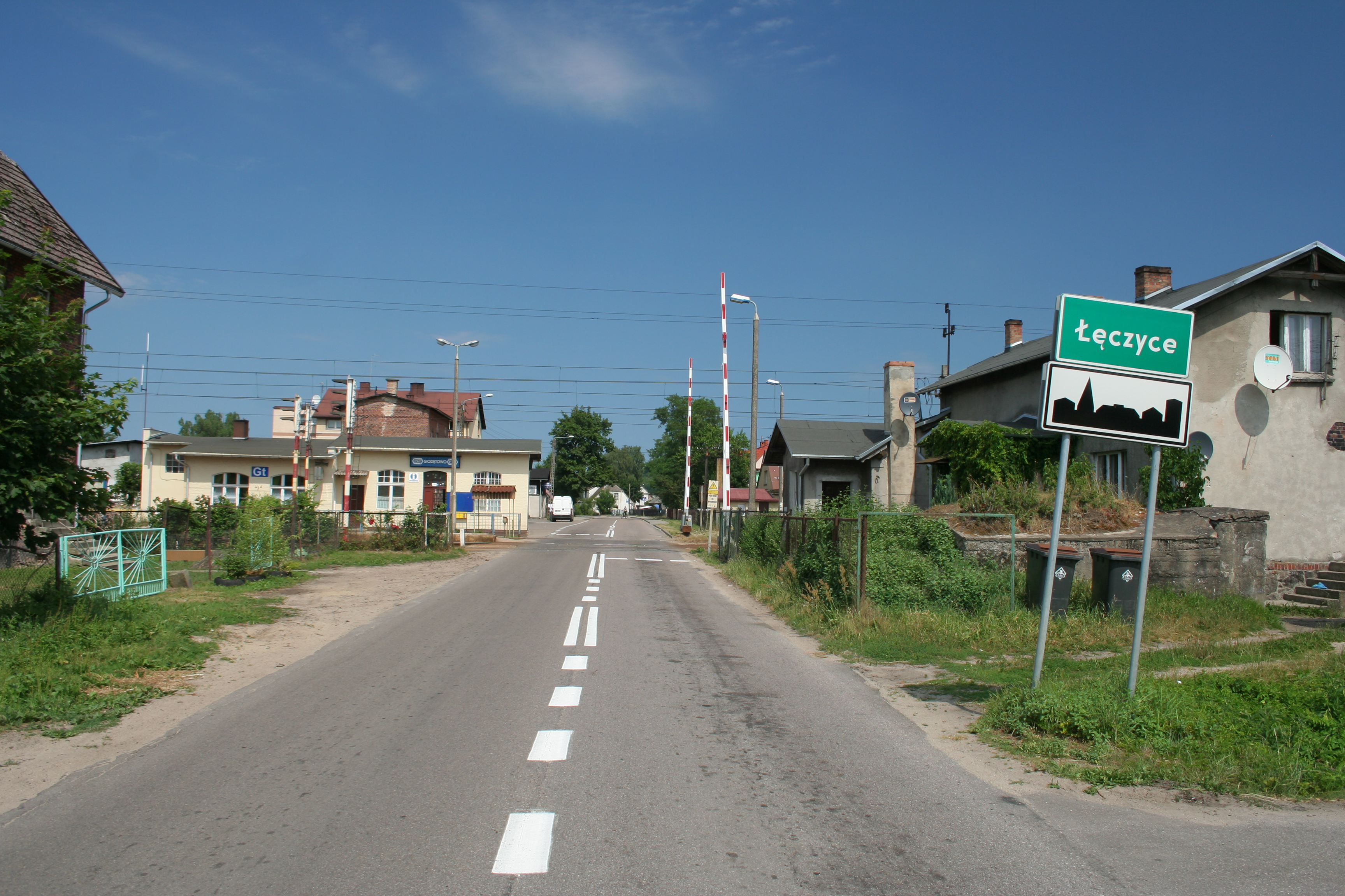 Road in Łęczyce.